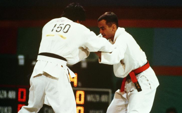 Second Lieutenant Craig Agena, right, from Fort Carson, Colorado, competes against Norway's Alfredo Chinchilla in the 65 kilogram weight class of the judo event at the 1984 Summer Olympics